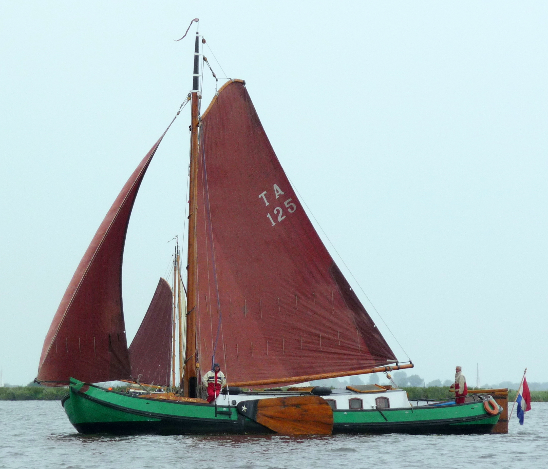 The Tjalk Jonge Jan (TA125). The photo was shot during the admiraalzeilen at the VSRP 2010 reunion. SSRP entry for Jonge Jan (TA125)]